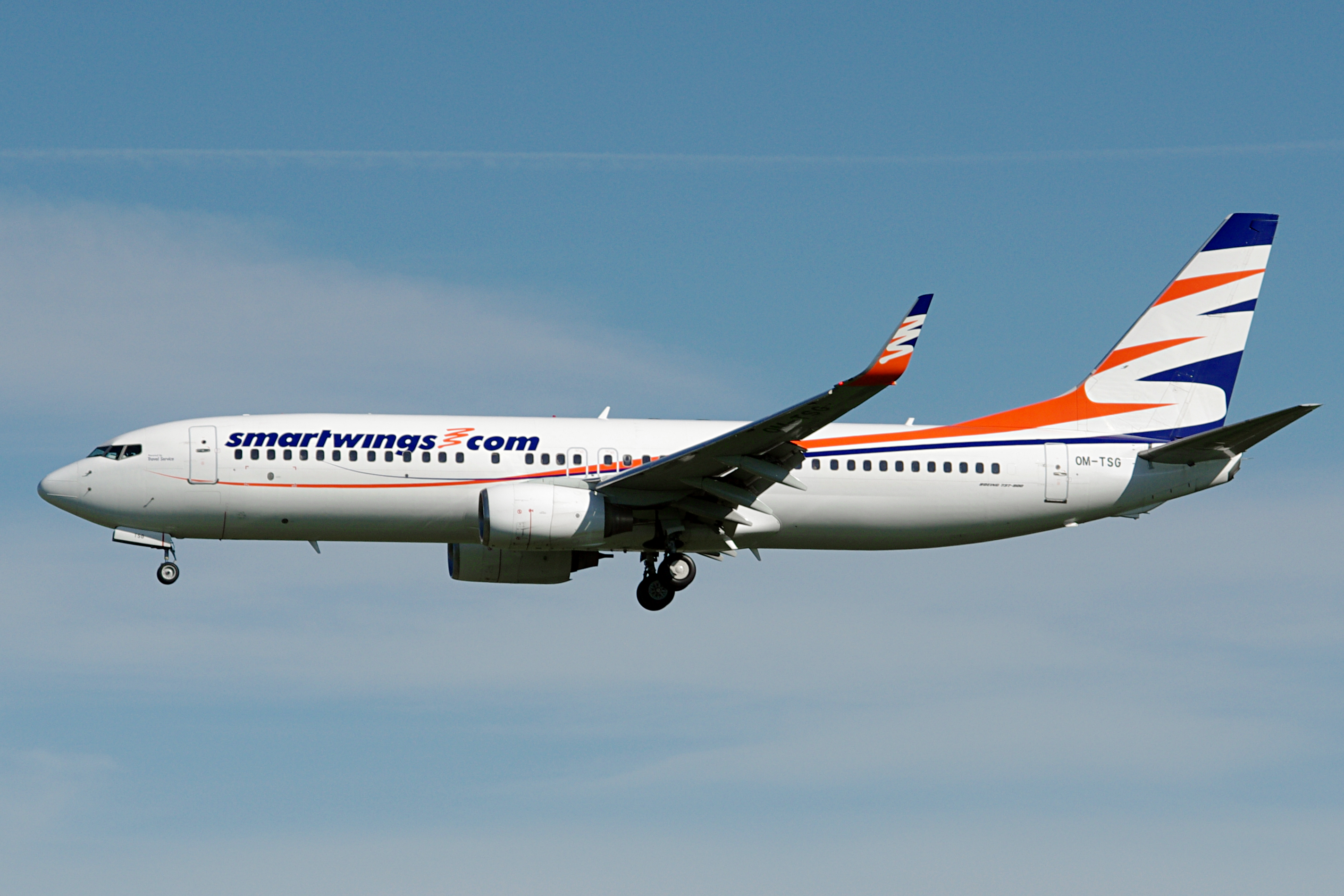 Boeing 737 of Smartwings at Vitoria-Gasteiz Airport.